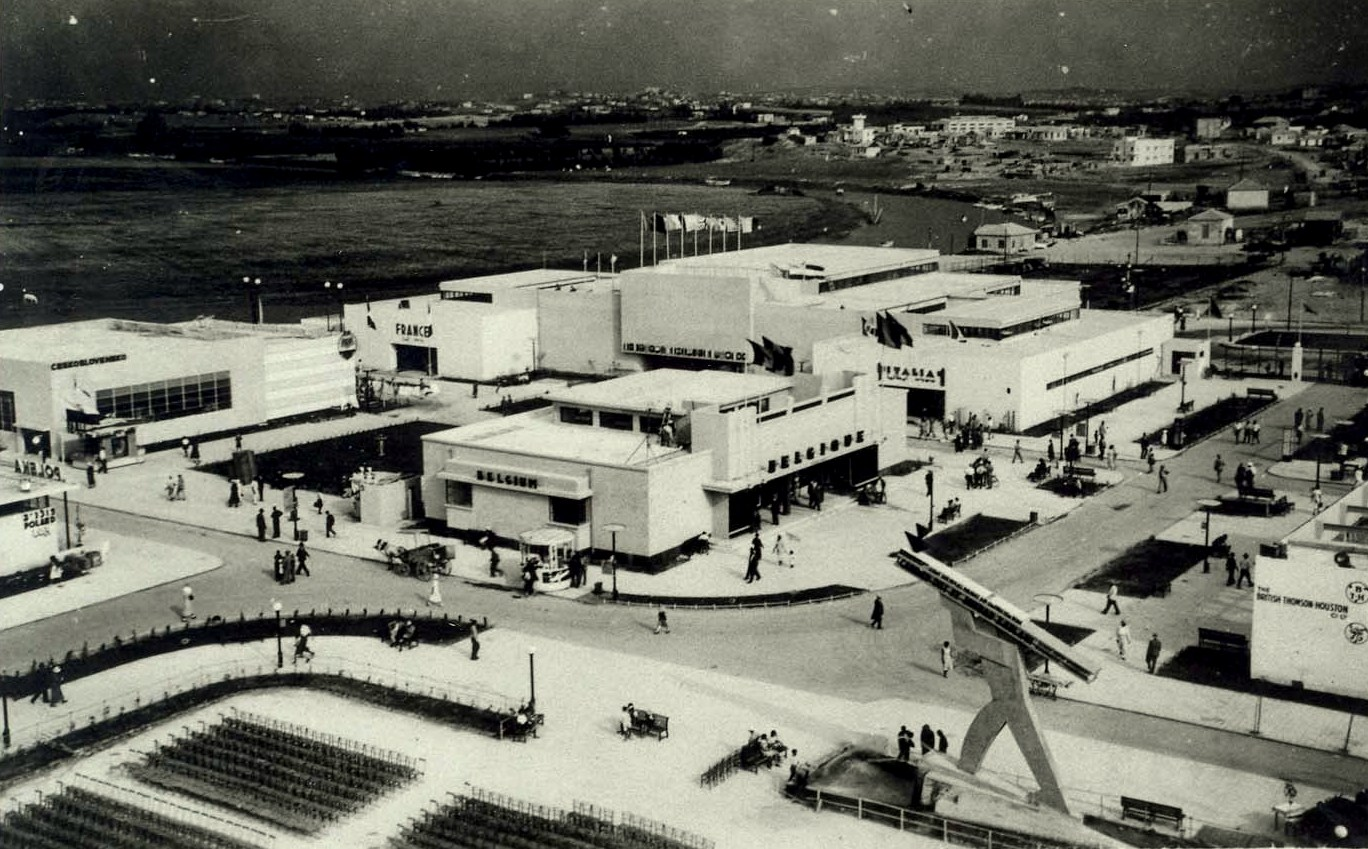 The Orient Fair, held in Tel Aviv, early 1930s